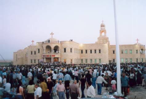 The Convent of Our Lady in al-Hasakah Governorate, Syria. It is situated near the Khabur River and belongs to the Syriac Orthodox Church.